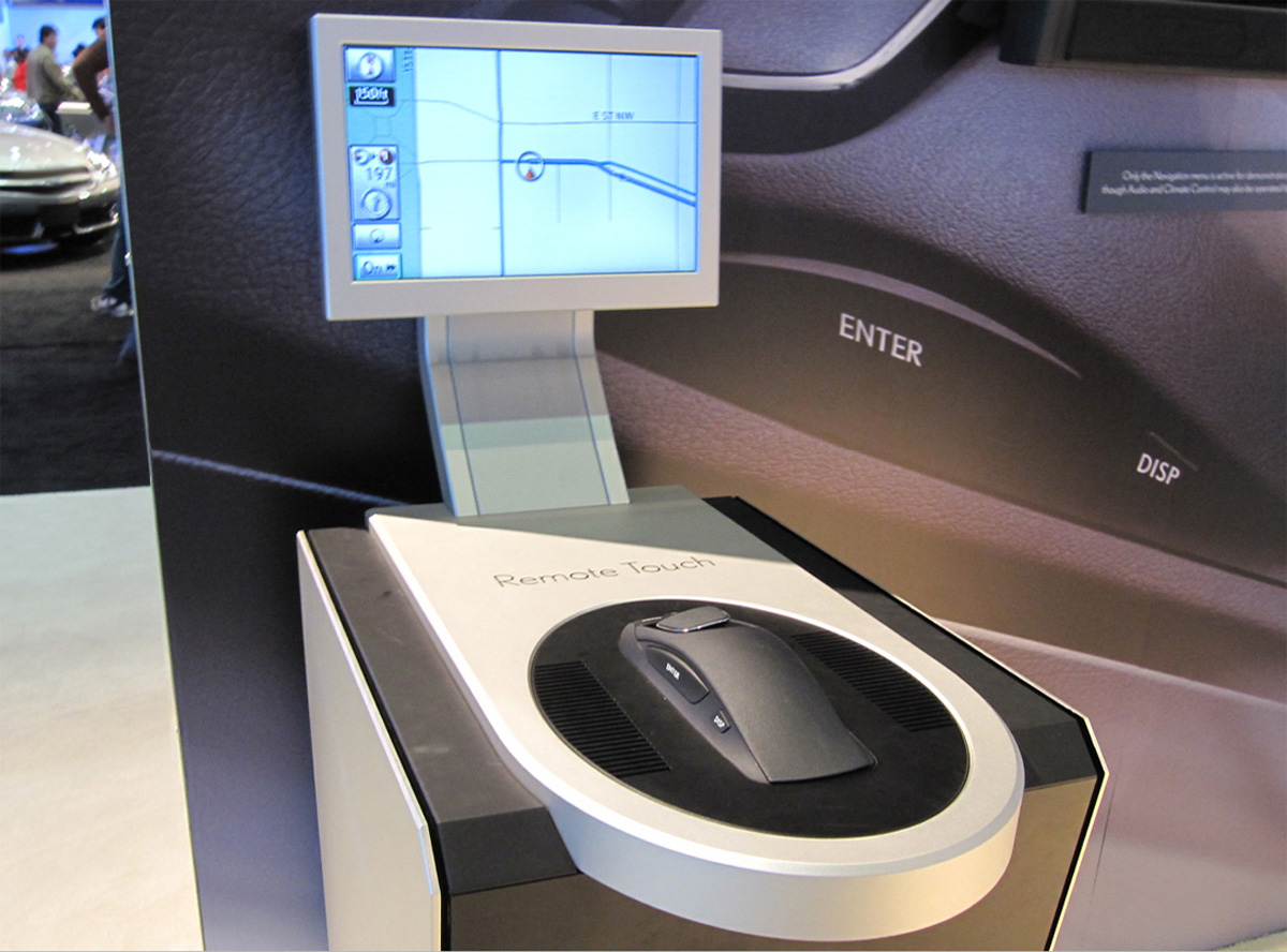 Remote Touch display at LA Auto Show